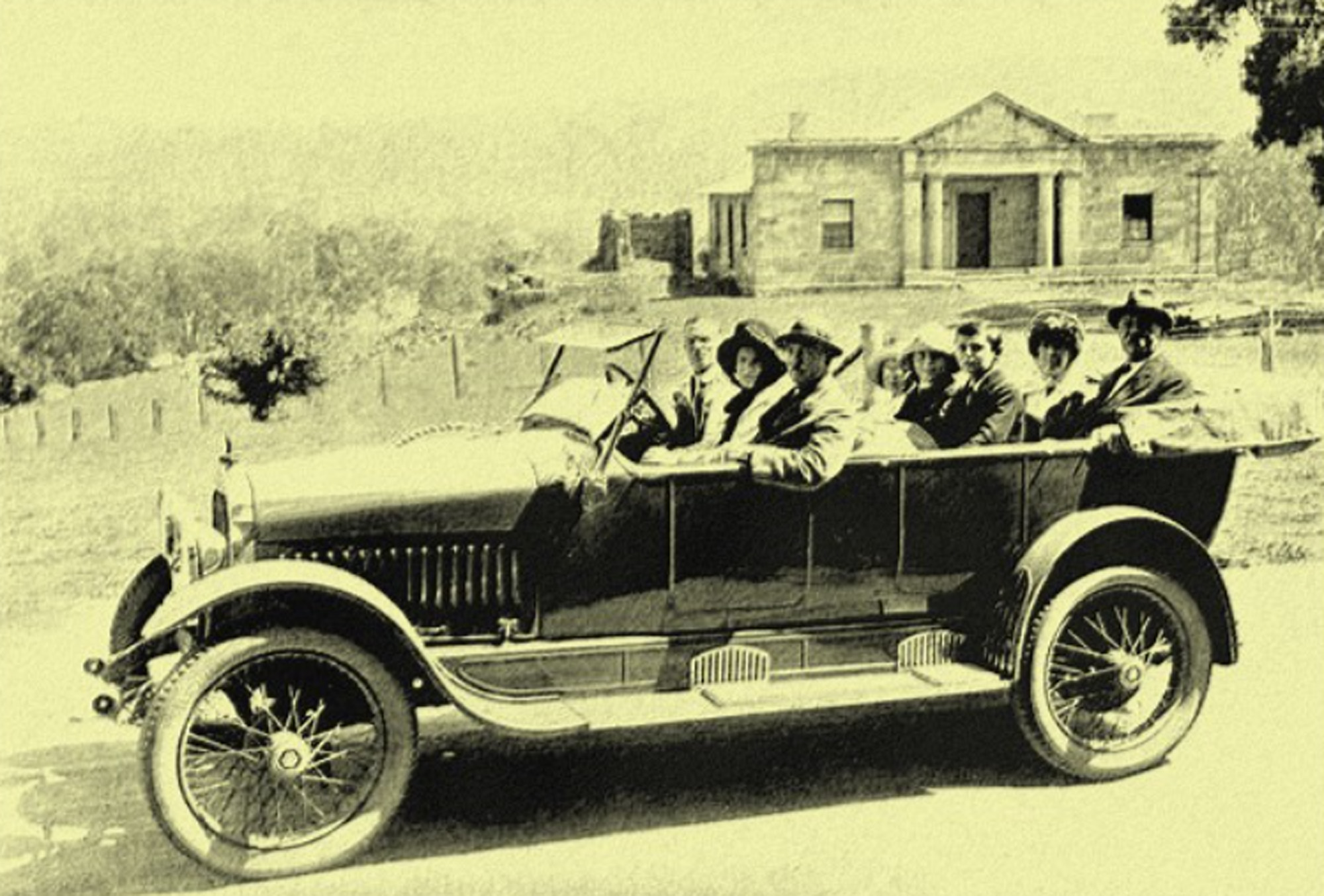 Sir Arthur Conan Doyle and his wife Jean (in the back seat) while staying at the Hydro Majestic Hotel, Medlow Bath